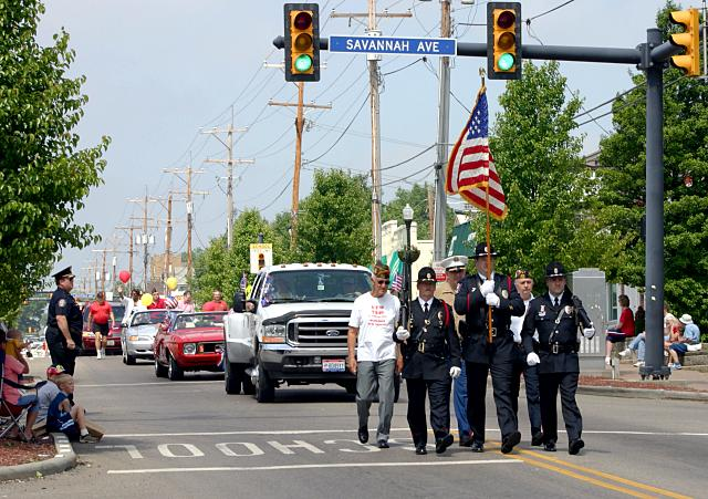 North College Hill, Ohio, USA, Memorial Day parade, 2004, by Rick Dikeman